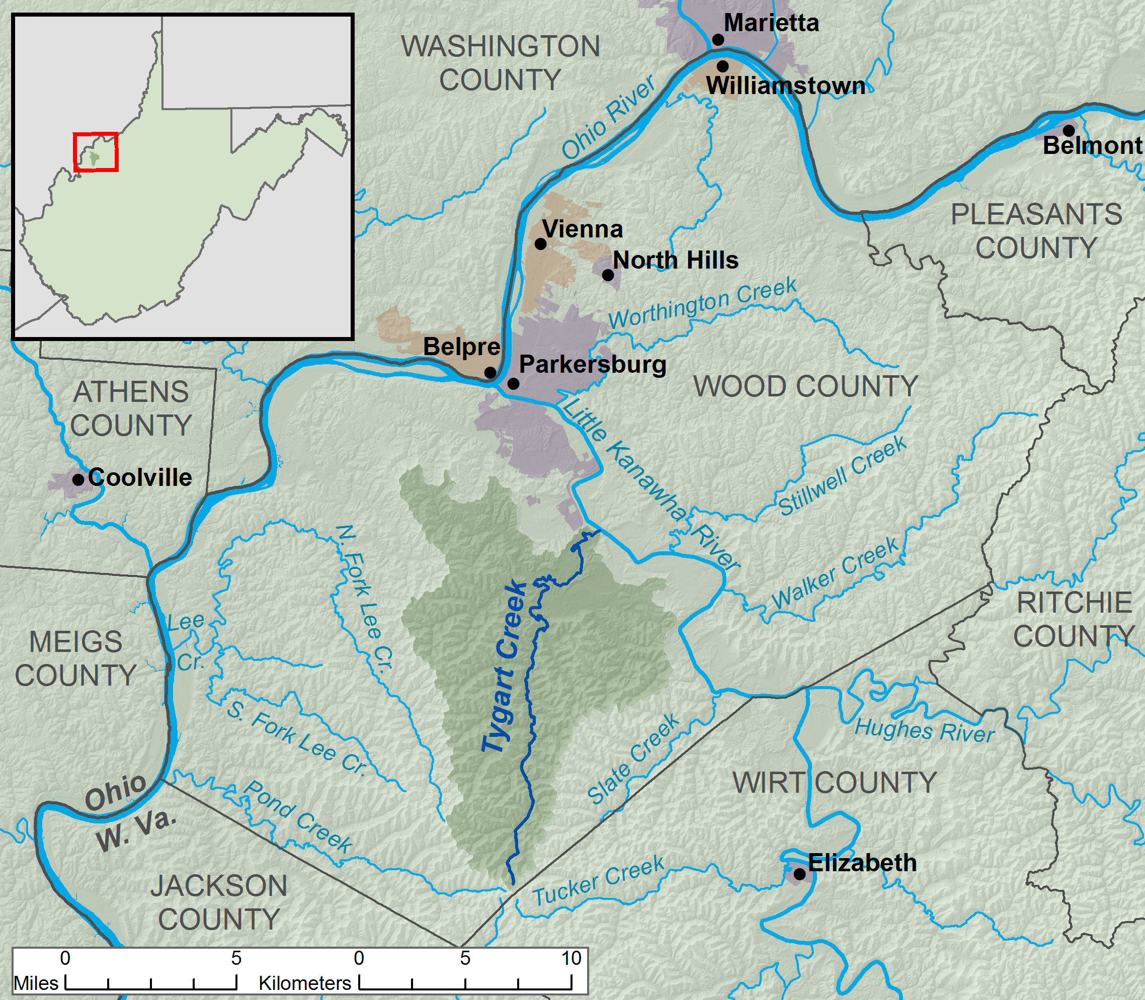 A map of Tygart Creek and its watershed (USGS HUC 050302031304) in Wood County, West Virginia.